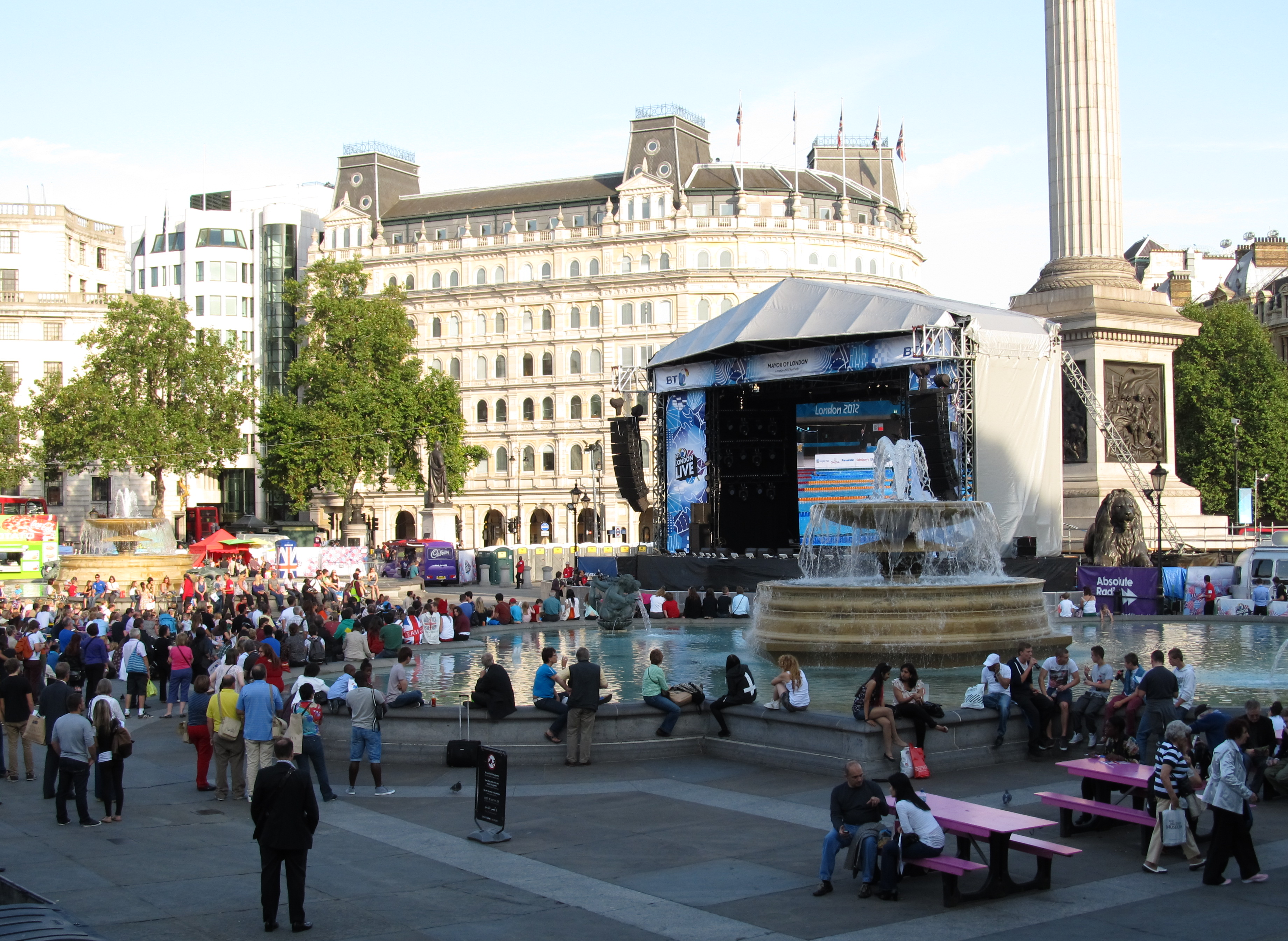 Trafalgar Square arranged to show the 2012 Summer Paralympics on a big screen, showing "BT London Live" courtesy of Channel 4 Television. Live music concerts took place in the evening.[1][2][3]